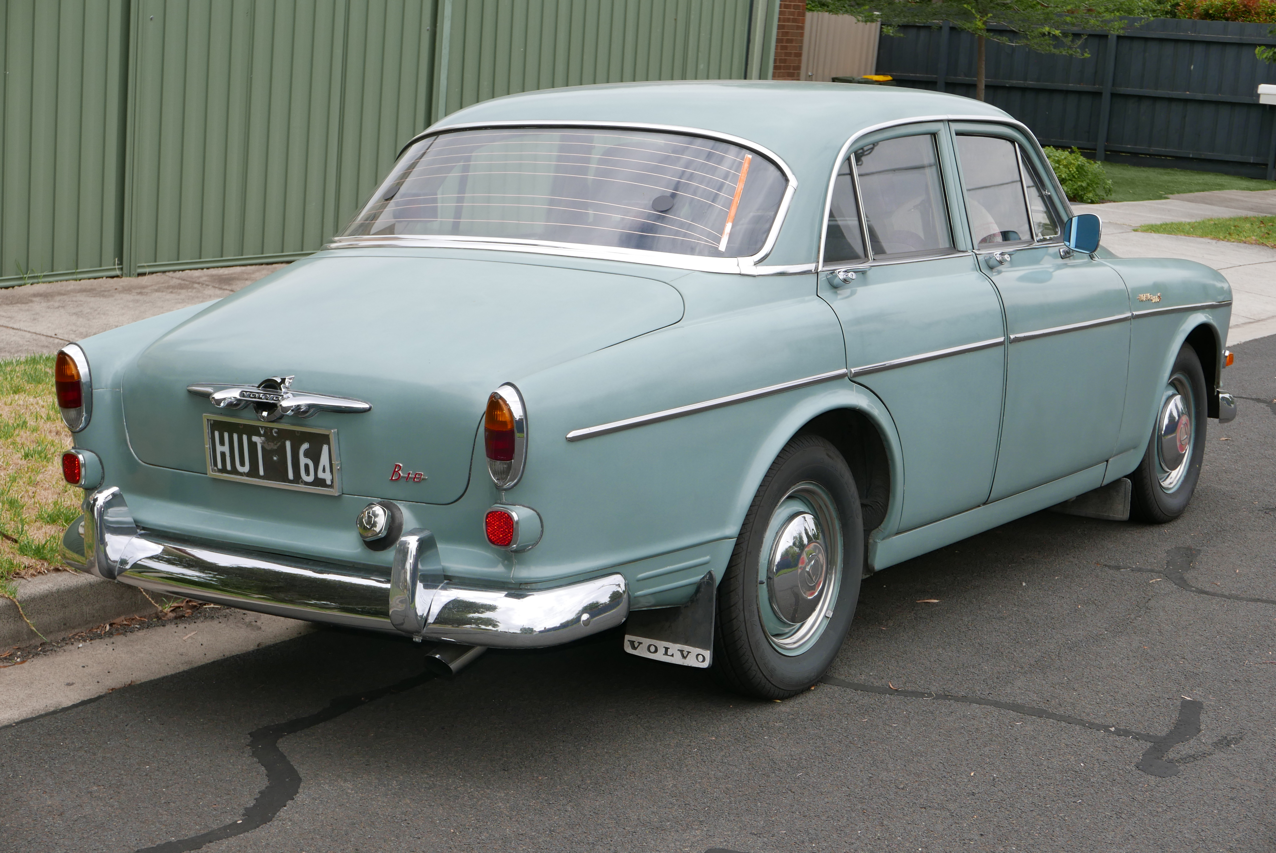 1963 Volvo 122S B18 4-door sedan. Photographed in Pascoe Vale, Victoria, Australia. Vehicle registration enquiry results Jurisdiction Victoria Registration HUT164 Chassis code Not available Engine code 0230117 Compliance date Not available Year of manufacture 1963